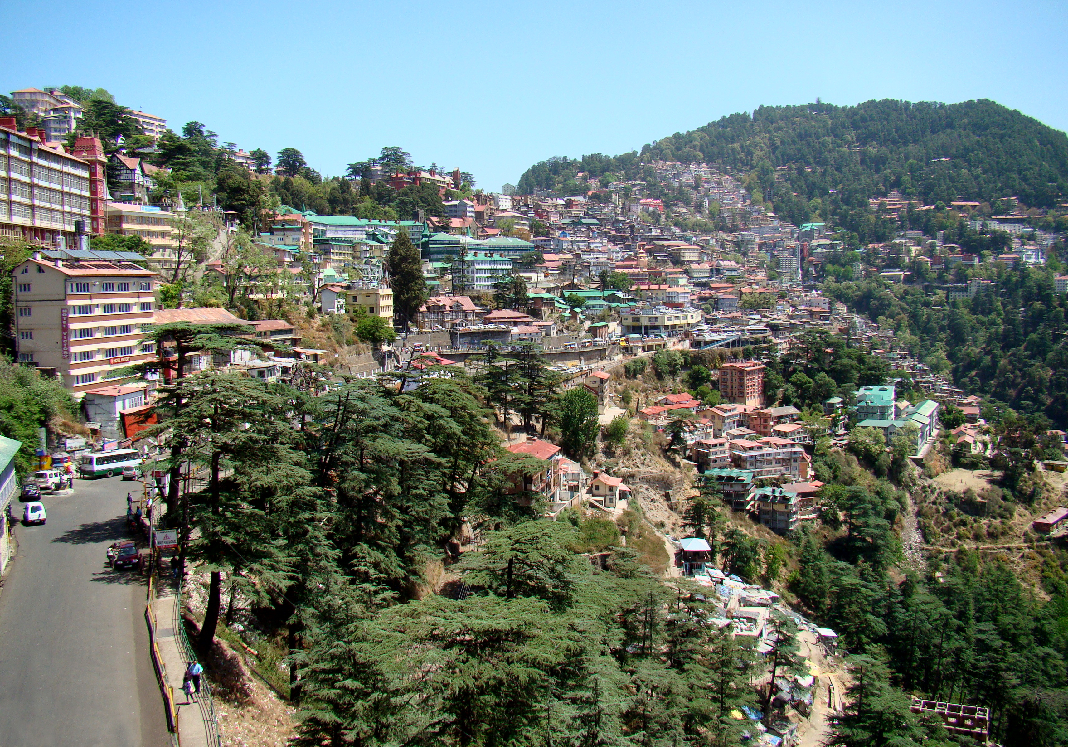 The centre of Shimla seen from near the railway station. This part of the city is on the southern side of the ridge. The road starting in the bottom left of the photo goes to the bus terminal just to the right of the center of the photo. Behind it the old town begins, with really steep streets and alleys, continuing up to the ridge, where no cars are allowed.